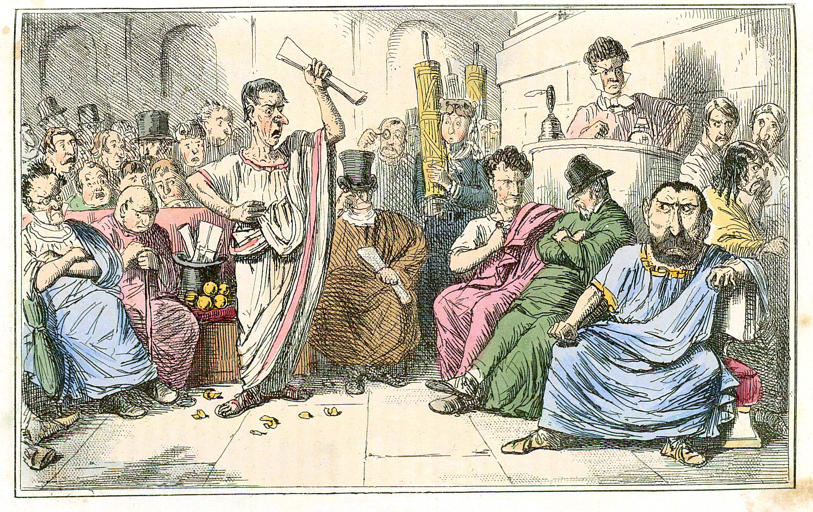 Image by John Leech, from: The Comic History of Rome by Gilbert Abbott A Beckett. Bradbury, Evans & Co, London, 1850s Cicero denouncing Catiline